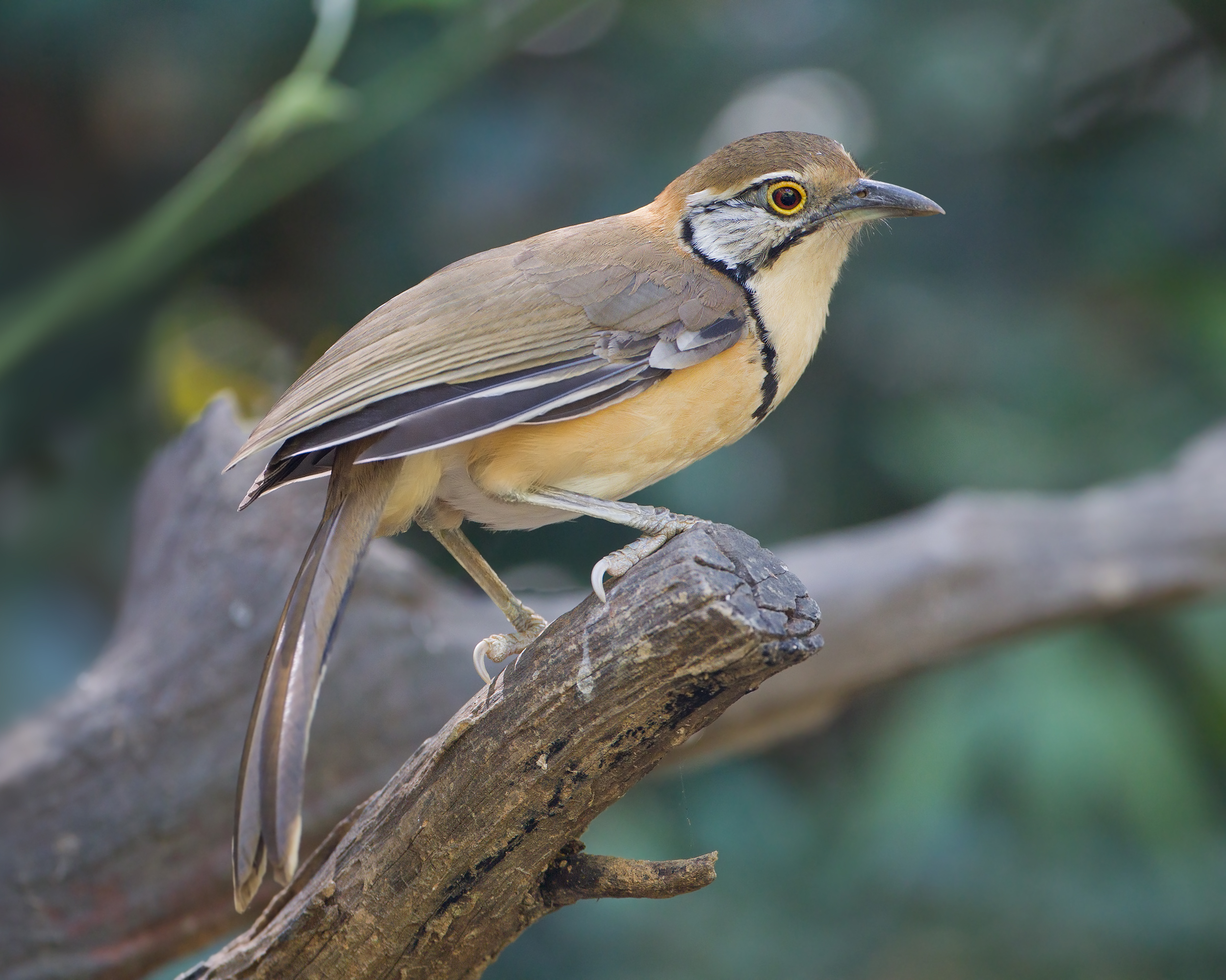 Greater Necklaced Laughingthrush (Garrulax pectoralis), Kaeng Krachan, Petchaburi, Thailand